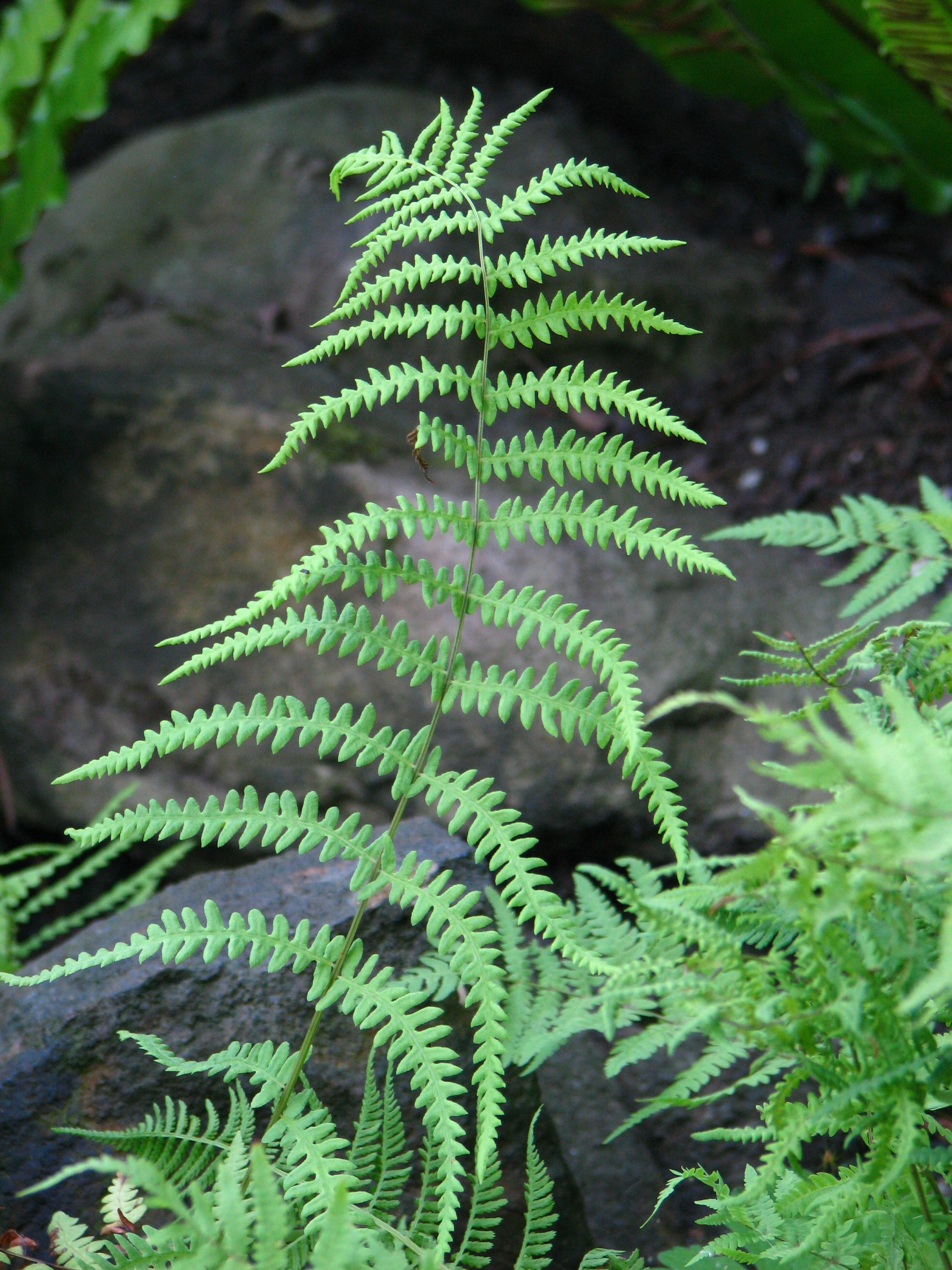 Eastern marsh fern Thelypteris palustris, cultivated in Wrocław University Botanical Garden, Poland.